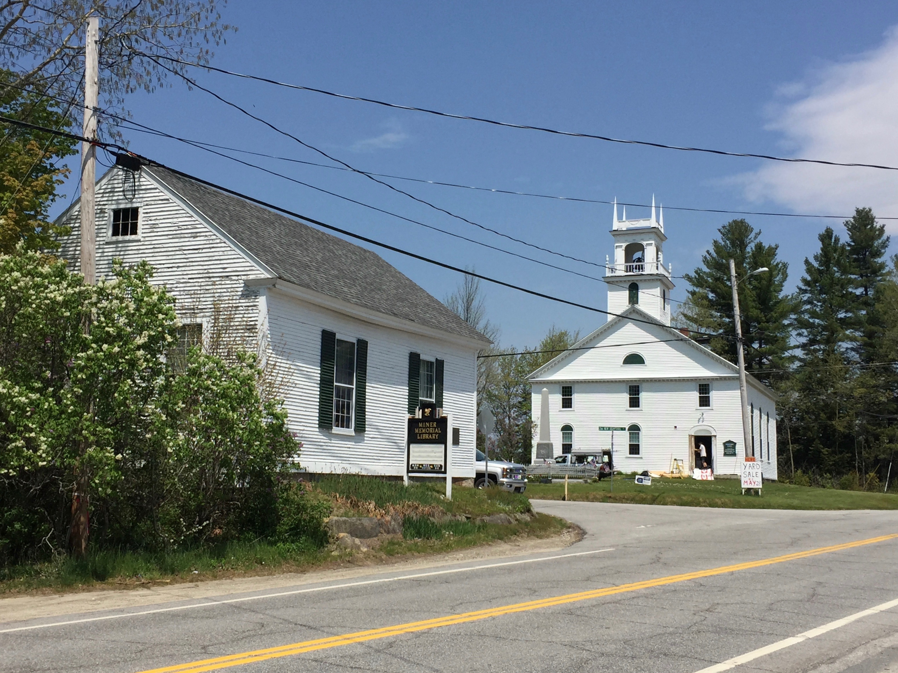 East Lempster, New Hampshire, May 2016